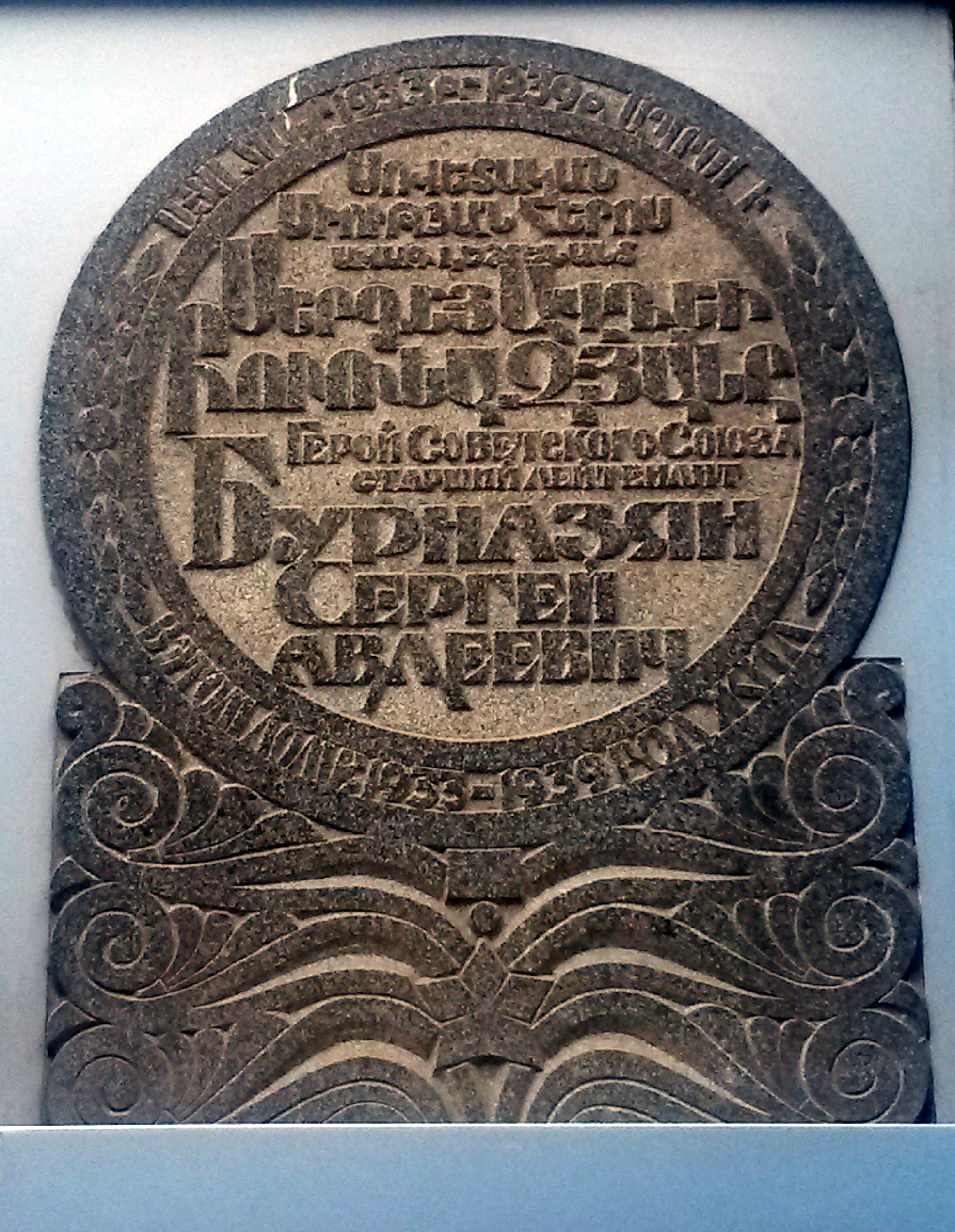 Sergey Bournazian's plaque on Koghbatsi street, Yerevan